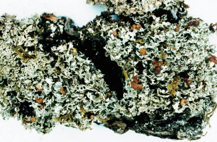 Cladonia caespiticia (Pers.) Flörke, 1887 Photograph of a herbarium specimen showing brown apothecia at the tips of podetia. C. caespiticia was growing on bark at Lead Mine Mountain along the Washington-Hancock County Line, Maine, USA (Lat. 44o51.470' N Long. 68o05.914 W); collected by E.C. Uebel, determined by D.H.S. Richardson (No. U-146, 13 Jun 2001).